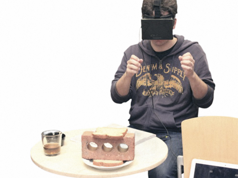 Cardboard Computer at WordPlay Festival 2014